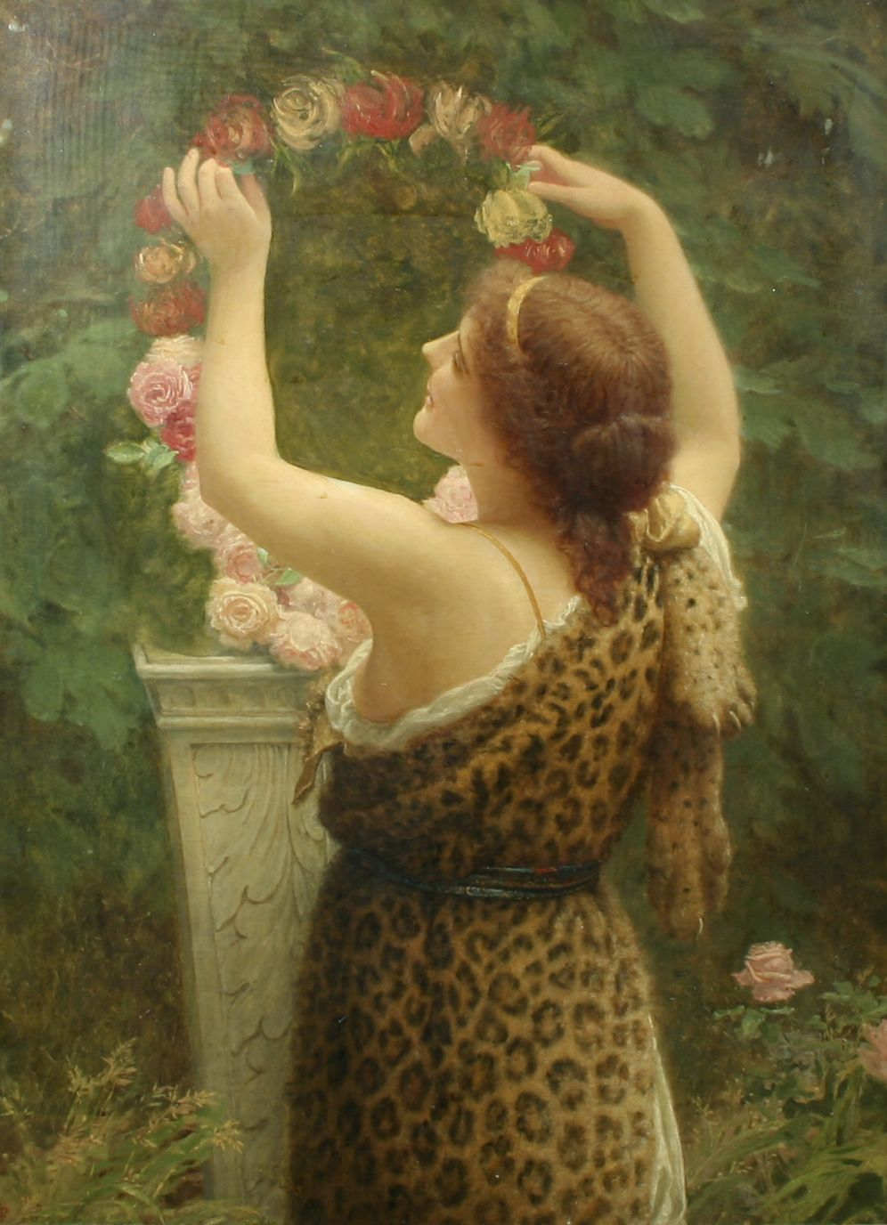 Woman with a Floral Wreath in a Leopard Dress